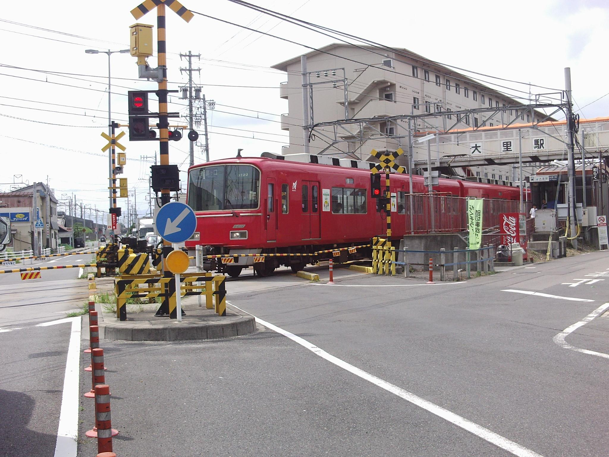 Aichi prefectural road No.454 in Okudacho-Sanjubanjin, Inazawa, Aichi. Starting point, Osato station.